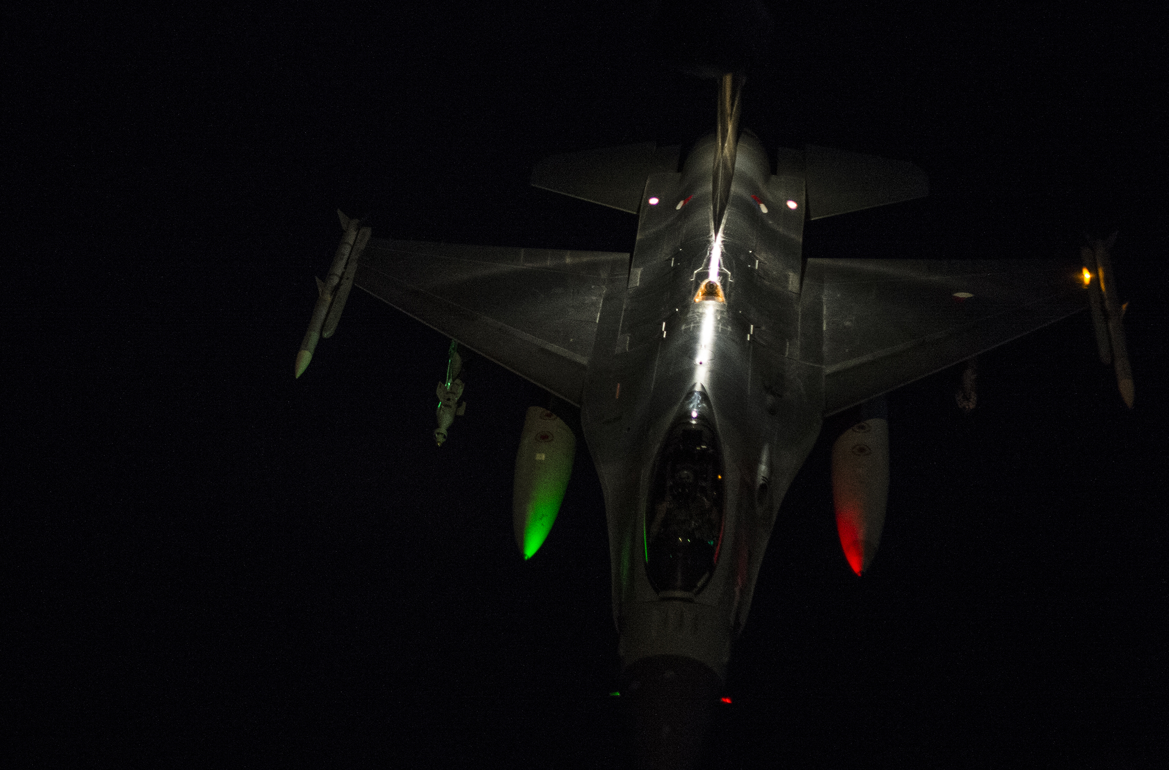 A Royal Netherlands Air Force F-16 Fighting Falcon receives fuel from a U.S. Air Force KC-135 Stratotanker assigned to the 340th Expeditionary Air Refueling Squadron, March 10, 2015, over Iraq. The F-16 will strike Da'esh targets in support Operation Inherent Resolve. (U.S. Air Force photo by Staff Sgt. Perry Aston/RELEASED)